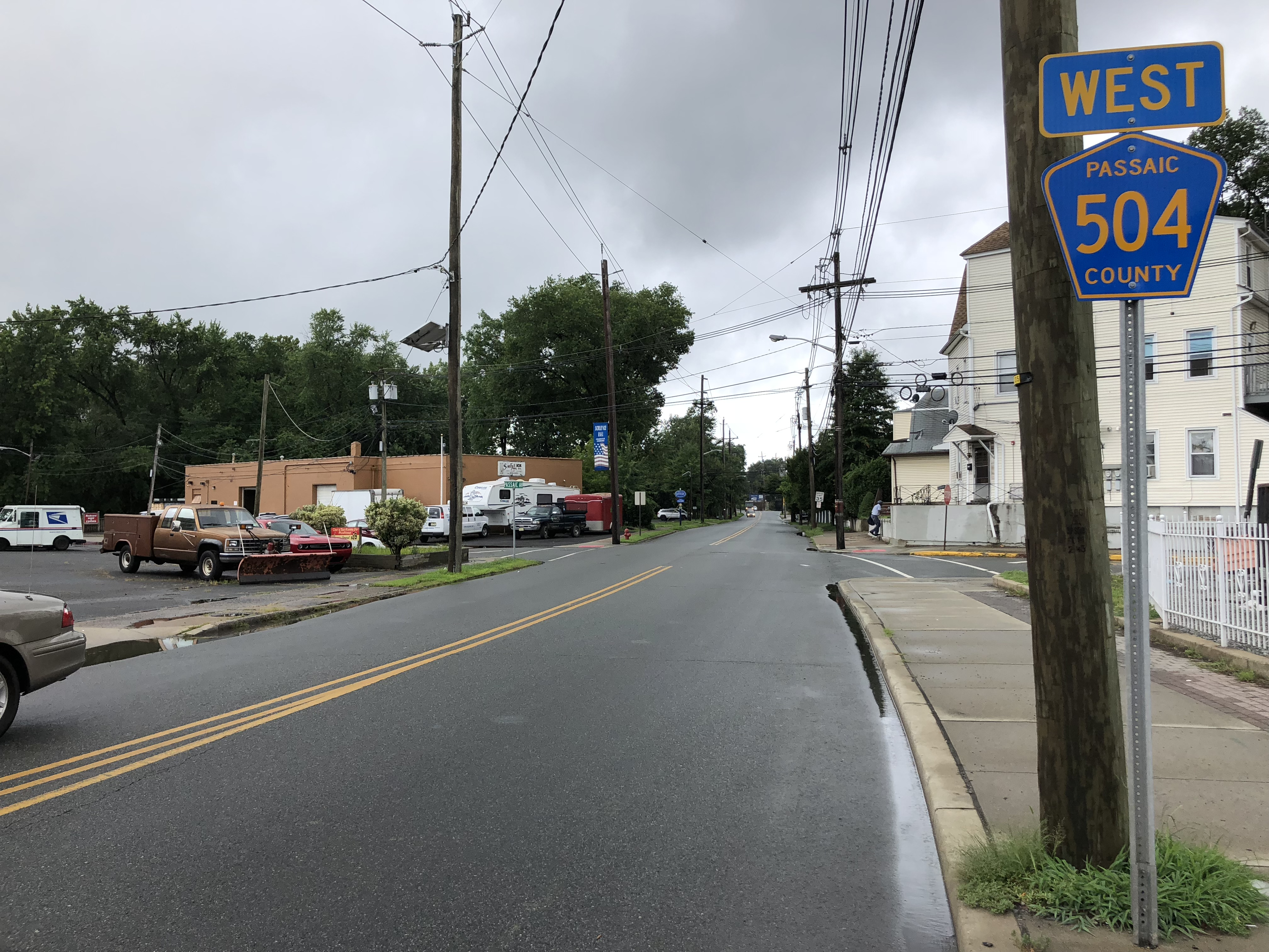 View west along Passaic County Route 504 (Wagaraw Road) just east of Passaic Avenue in Hawthorne, Passaic County, New Jersey